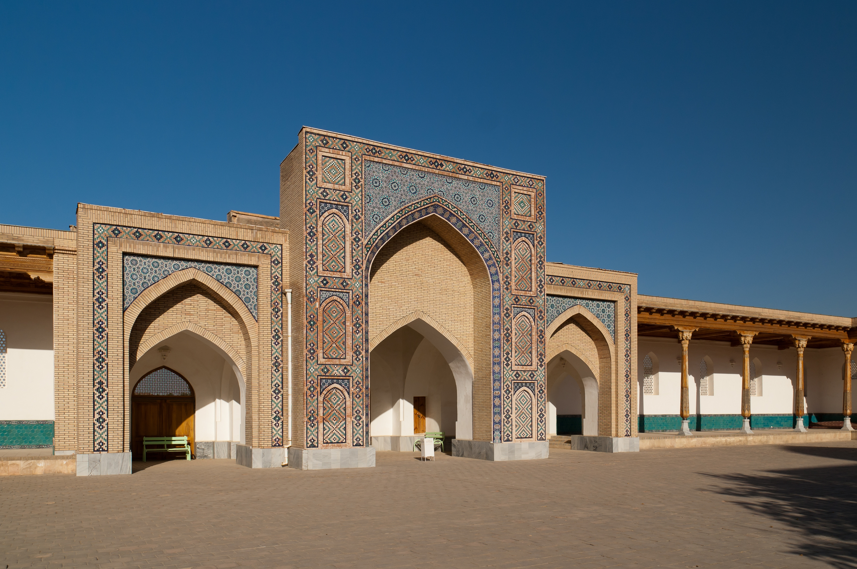 Kok-Gumbaz mosque in Qarshi, Uzbekistan